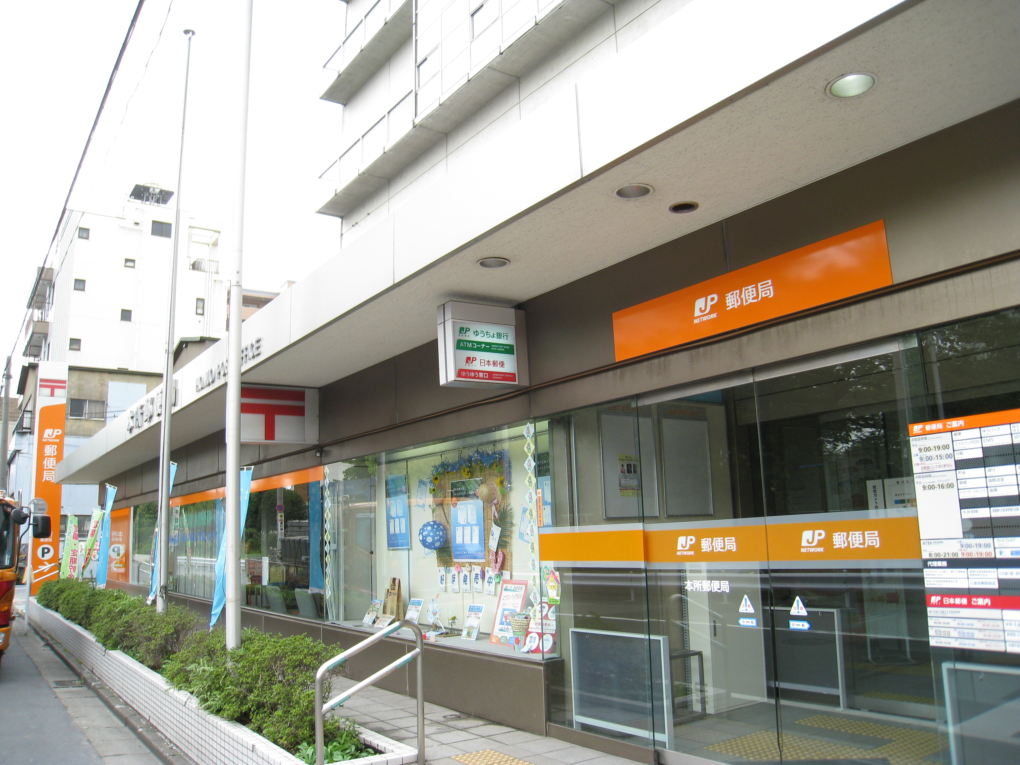 Honjo Postoffice. Katsushika-ku, Tokyo, Japan